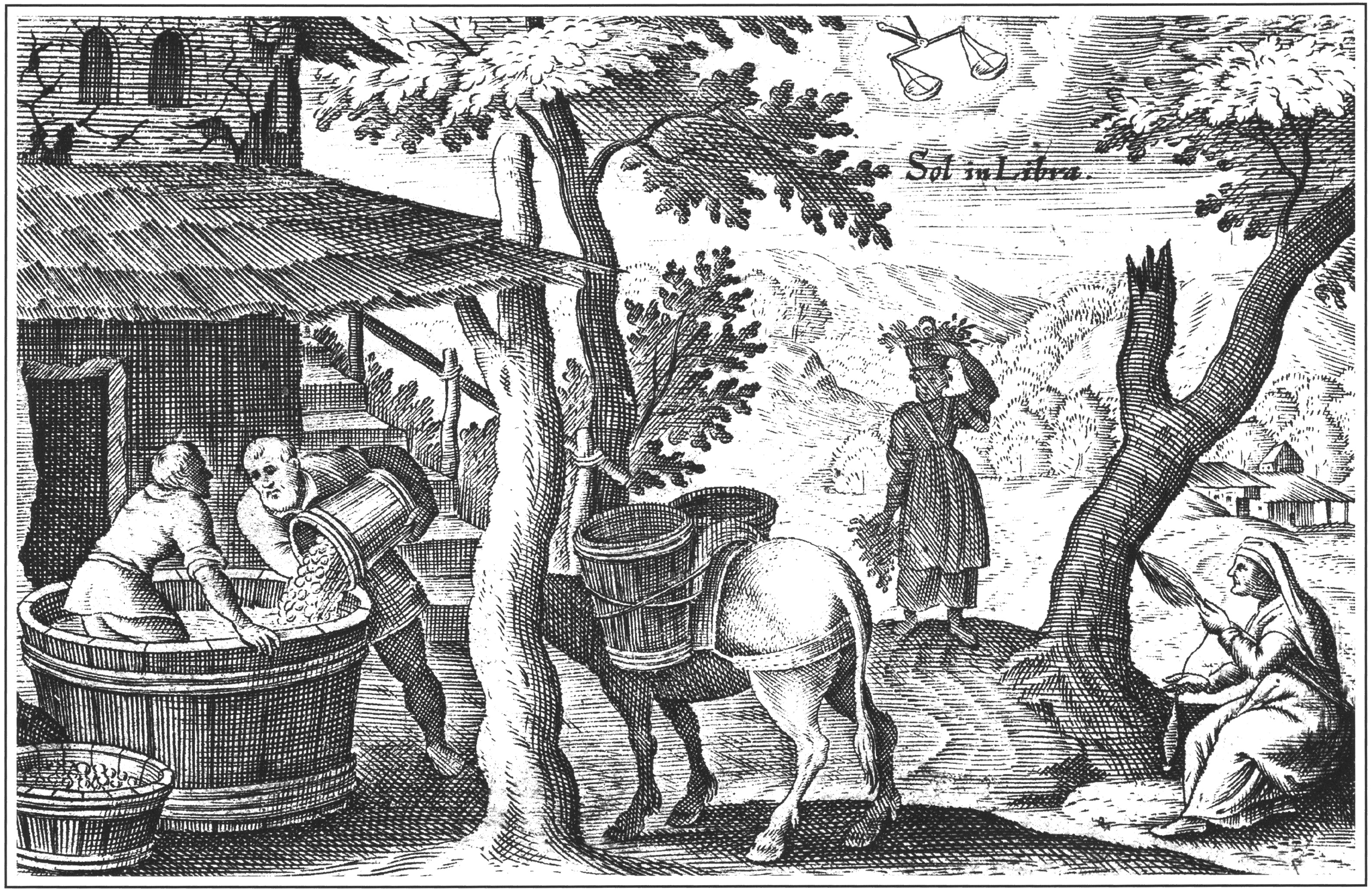 September, Aleksander Tarasowicz